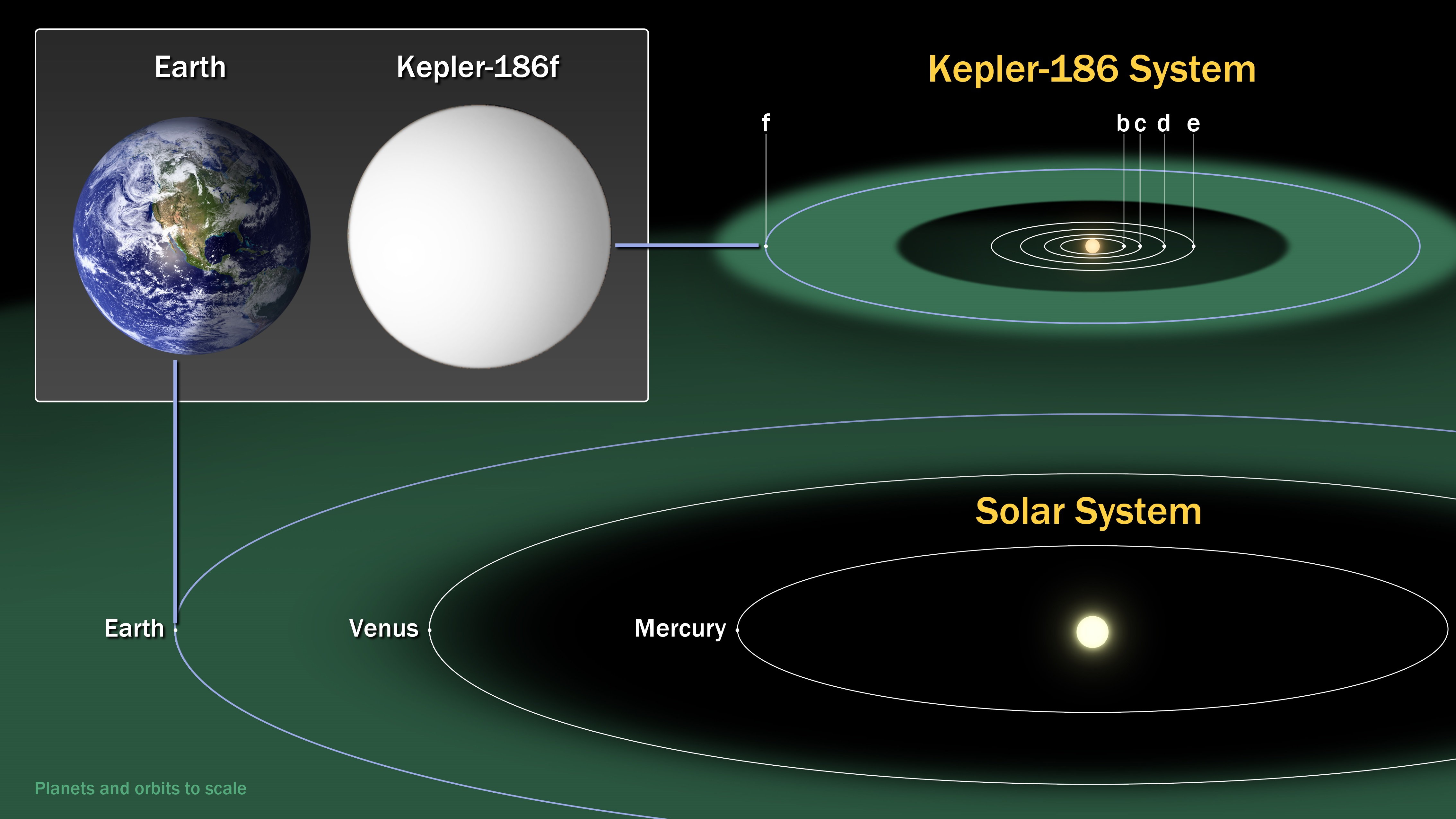 Kepler-186 and the Solar System The diagram compares the planets of our inner solar system to Kepler-186, a five-planet star system about 500 light-years from Earth in the constellation Cygnus. The five planets of Kepler-186 orbit an M dwarf, a star that is is half the size and mass of the sun. The Kepler-186 system is home to Kepler-186f, the first validated Earth-size planet orbiting a distant star in the habitable zone—a range of distance from a star where liquid water might pool on the planet's surface. The discovery of Kepler-186f confirms that Earth-size planets exist in the habitable zones of other stars and signals a significant step toward finding a world similar to Earth. The size of Kepler-186f is known to be less ten percent larger than Earth, but its mass and composition are not known. Kepler-186f orbits its star once every 130 days, receiving one-third the heat energy that Earth does from the sun. This places the planet near the outer edge of the habitable zone. The inner four companion planets each measure less than fifty percent the size of Earth. Kepler-186b, Kepler-186c, Kepler-186d and Kepler-186e, orbit every 4, 7, 13 and 22 days, respectively, making them very hot and inhospitable for life as we know it. The Kepler space telescope infers the existence of a planet by the amount of starlight blocked when it passes in front of its star. From these data, a planet's radius, orbital period and the amount of energy recieved from the host star can be determined. This derived version does not make any speculative assumptions of the actual appearance planet Kepler-186f itself, which therefore is displayed by a white ball, in deviation of the artistic and imaginative view of the original picture.